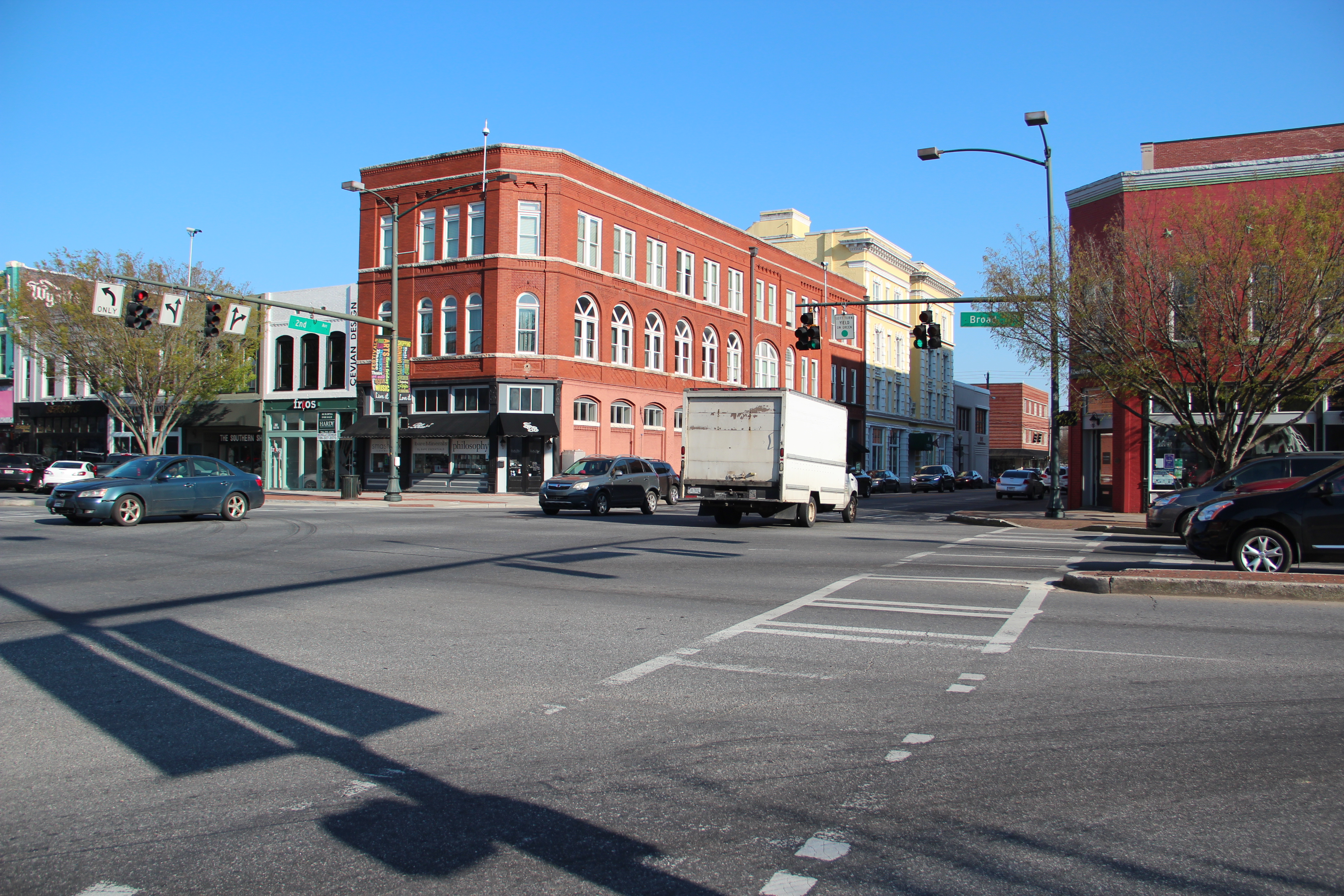 2nd Avenue @ Broad Street, Rome GA